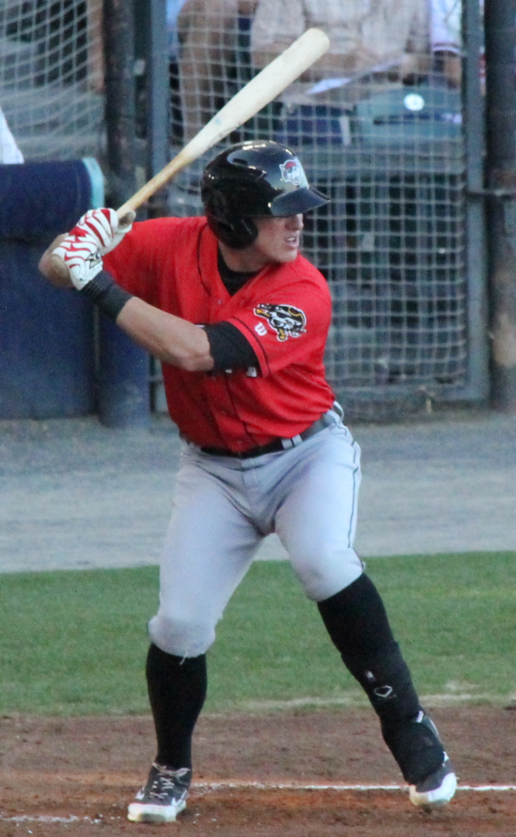 James McCann